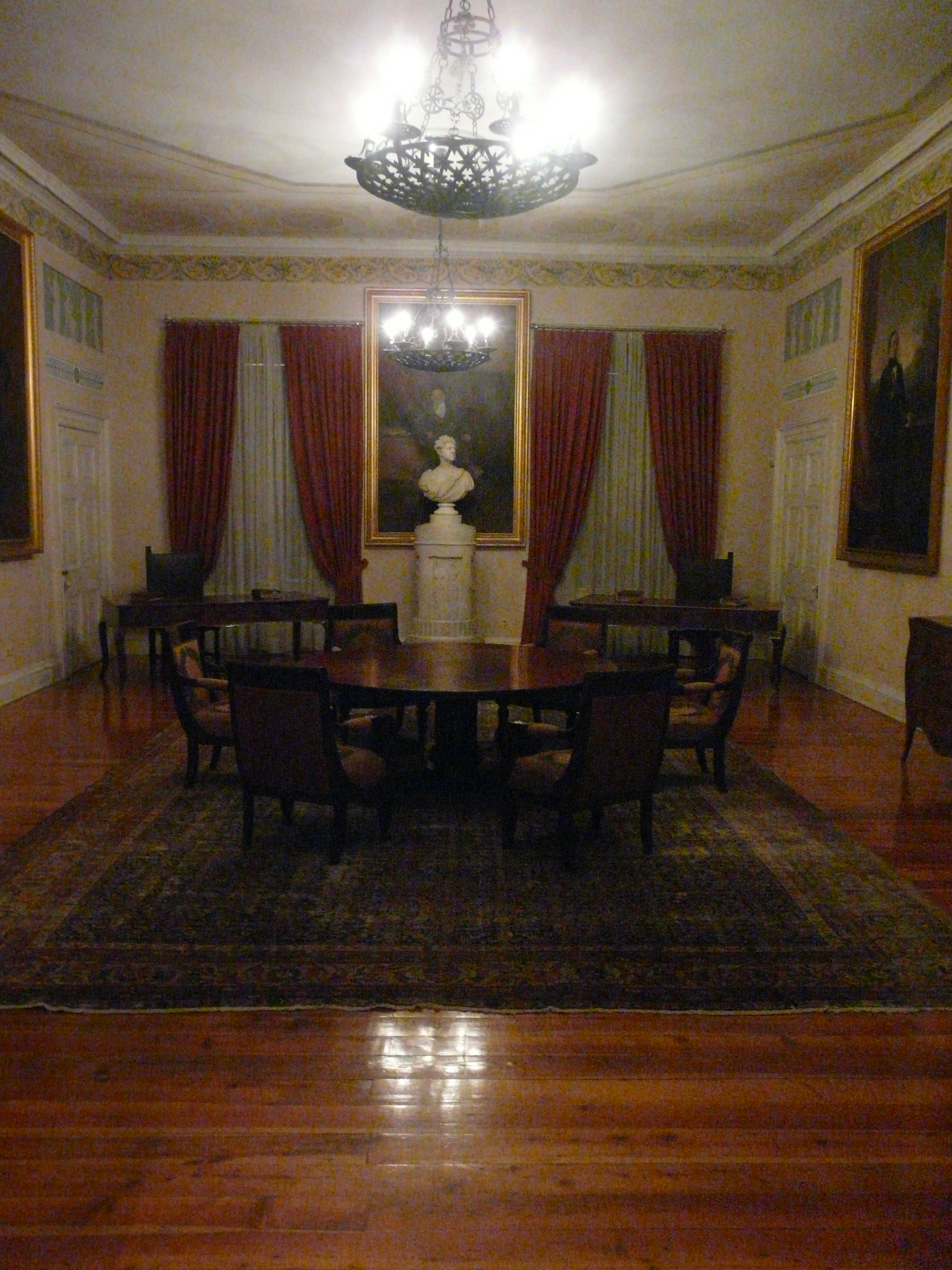 Museum of Asian art of Corfu. Corfu town.Corfu, Greece.